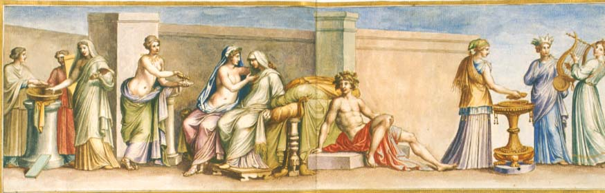 Roman fresco; Vatican Museum, Vatican City: Aldobrandini Wedding